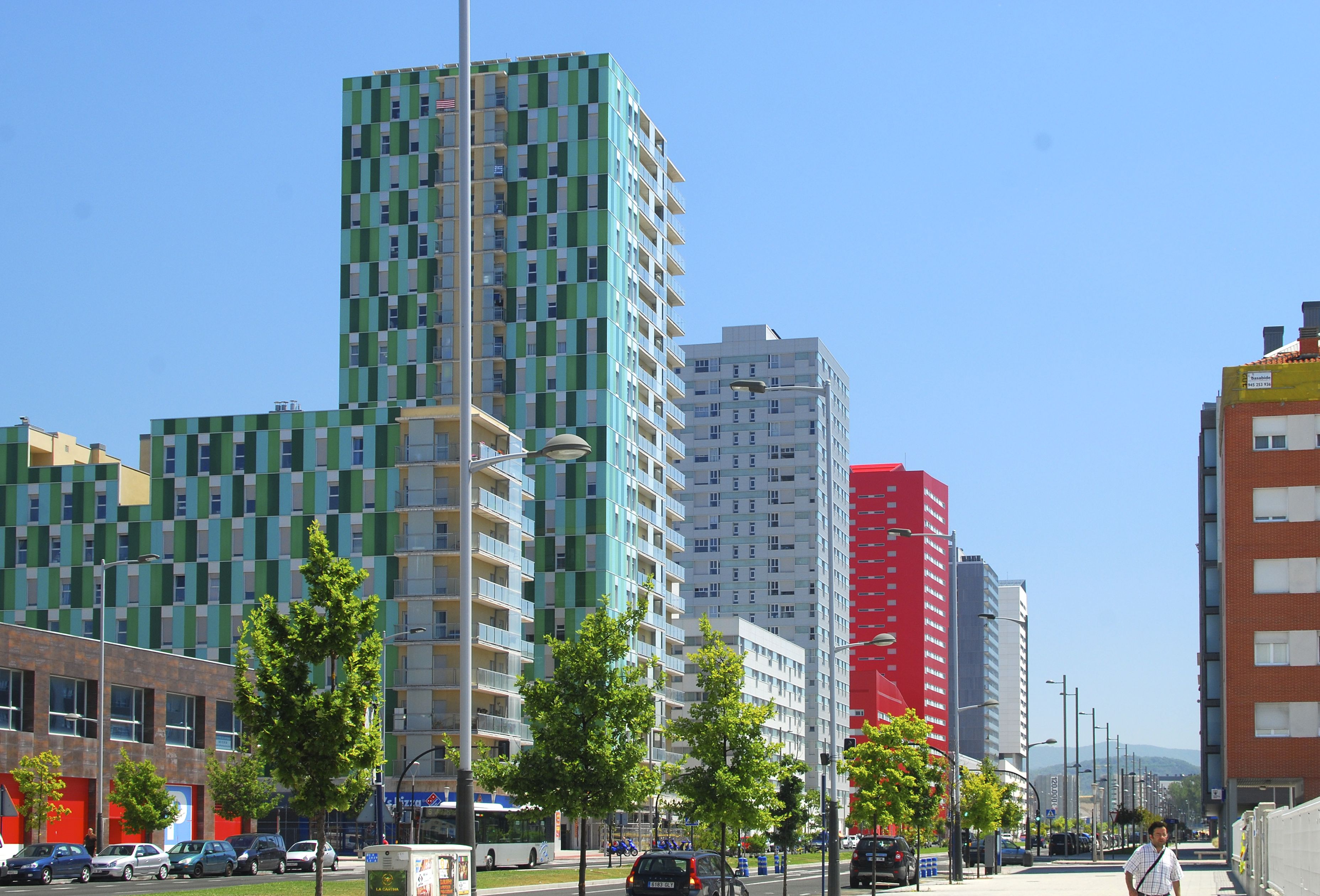 Modern buildings on Bulevar de Salburua, Vitoria-Gasteiz, Spain.